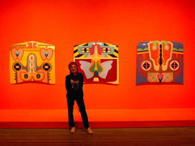 The American artist Judy Chicago in front of three of her car hood paintings. Tate Modern 2015